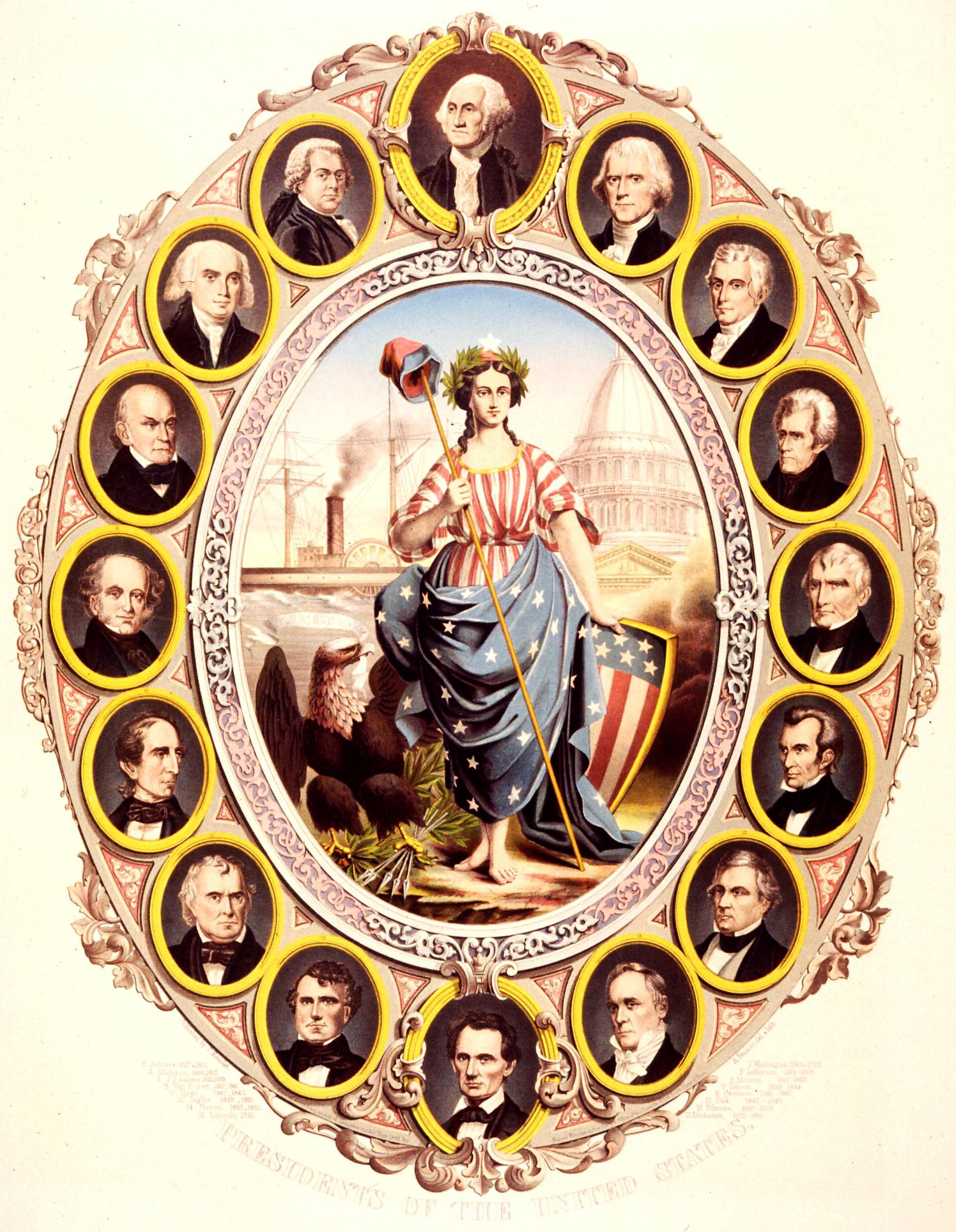 A large, patriotic print probably issued around the time of Abraham Lincoln's inauguration. Columbia stands before the U.S. Capitol, holding a shield and a staff with a liberty cap. On her brow she wears a laurel wreath with a single star. Beside her is an eagle, holding a streamer with the motto 'E Pluribus Unum.' A steamship is visible in the background left. The central scene is framed by oval portraits of the first sixteen presidents of the United States, with George Washington at the top and a beardless Abraham Lincoln at the bottom.